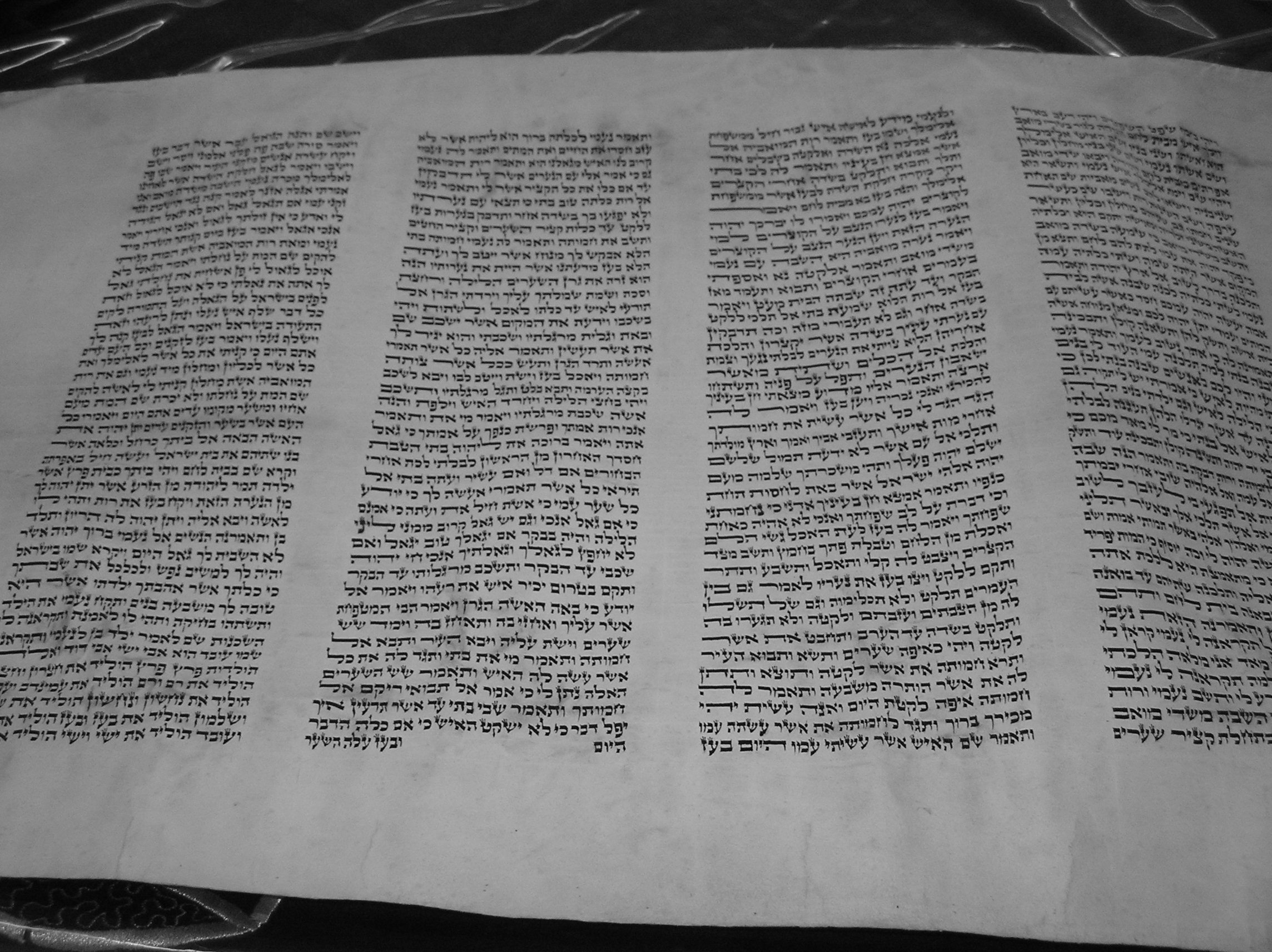 Ruth